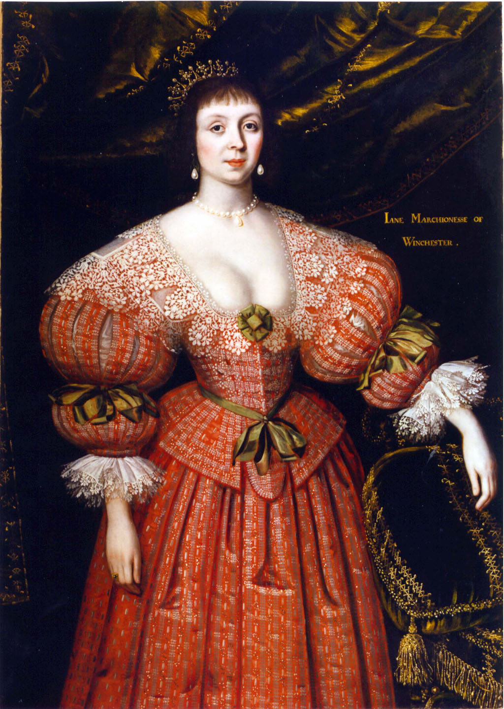 Portrait of Jane Paulet née Savage, Marchioness of Winchester, signed and dated 1632 and inscribed.